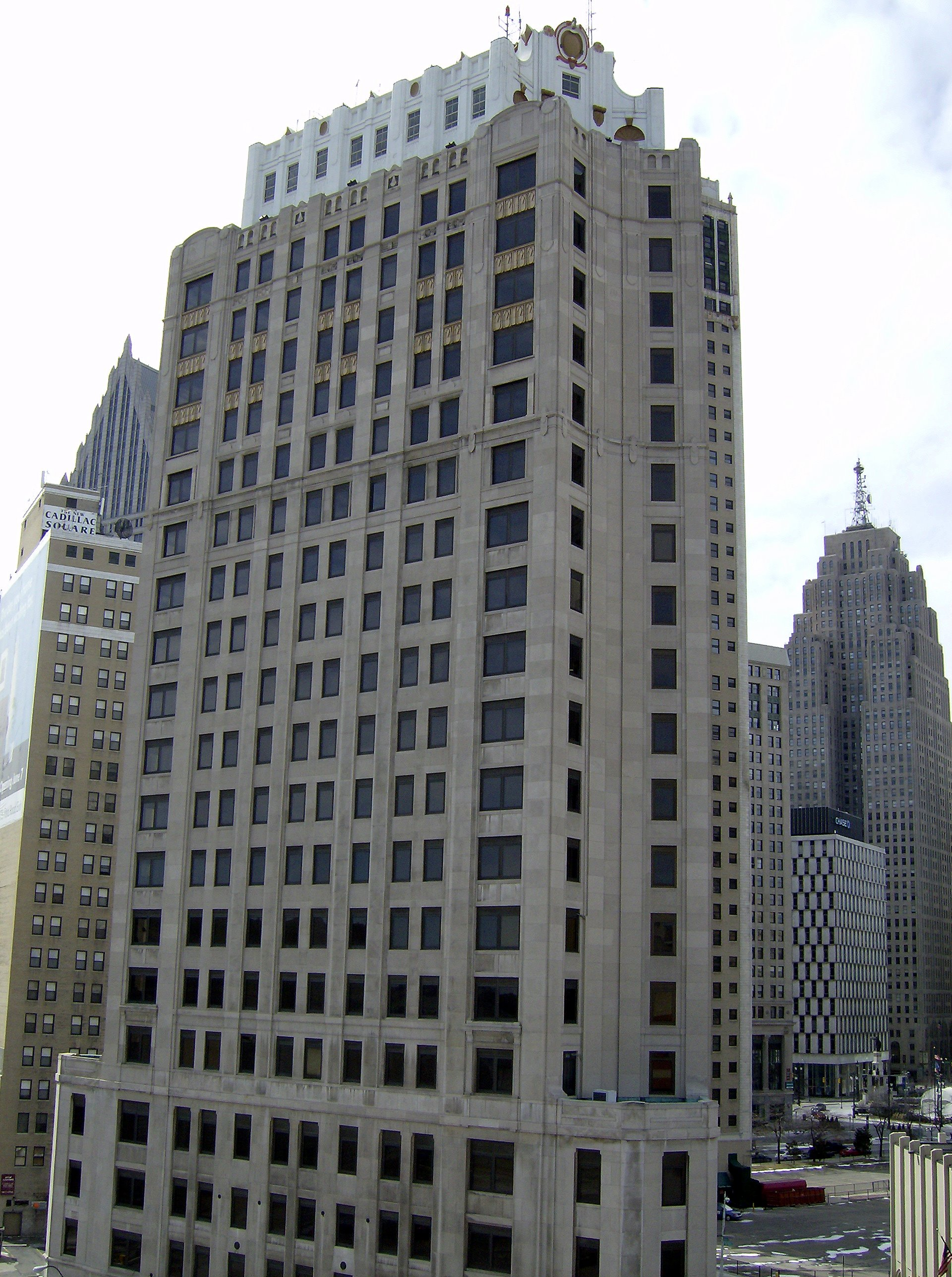 self made